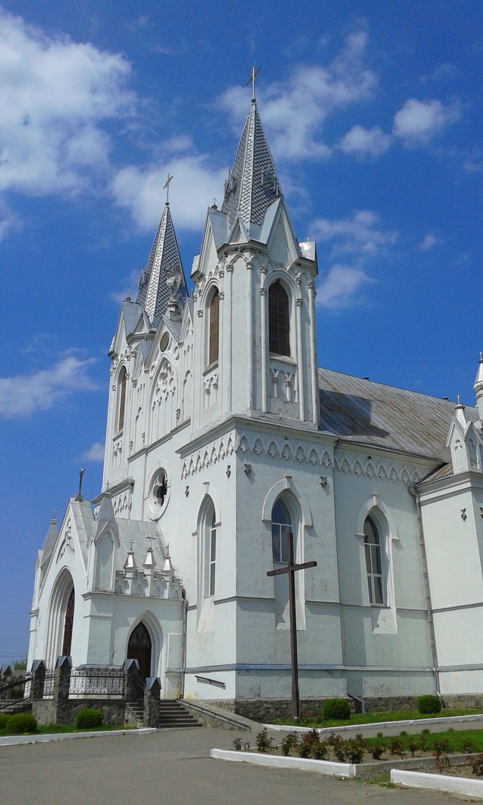 (004) St Anna Roman Catholic Cathedral in Town of Bar Region of Vinnytsia State of Ukraine Photograph by Viktor O Ledenyov 20170504